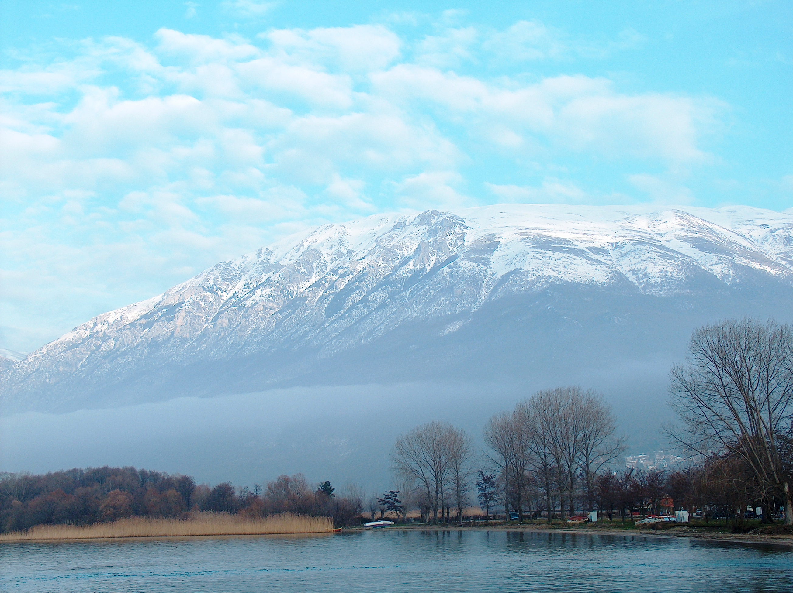 Galichitsa Mountain with Ohrid Lake in the foreground, North Macedonia.